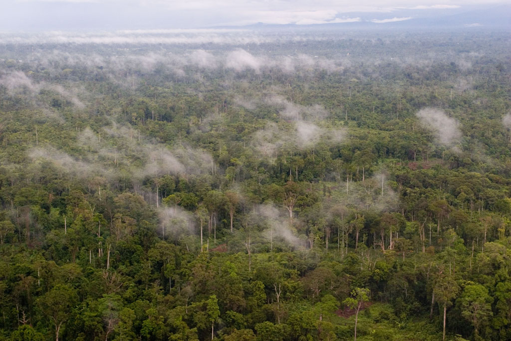 Forest in Akimuga, Mimika, Papua